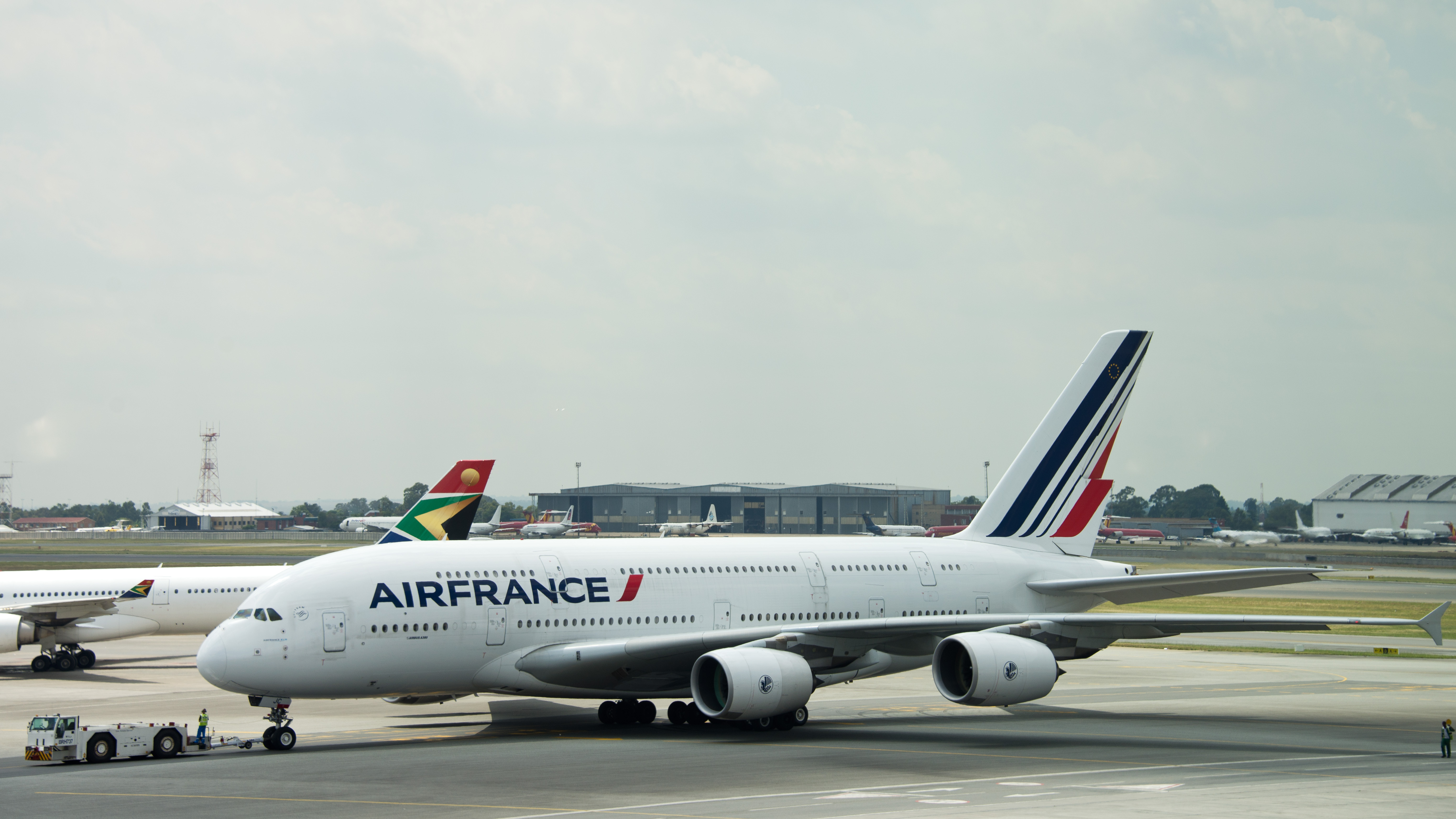 Air France Airbus Industrie A380 sitting on the ramp in Johannesburg Airport, Oliver Tambo International, in South Africa on a cloudy day